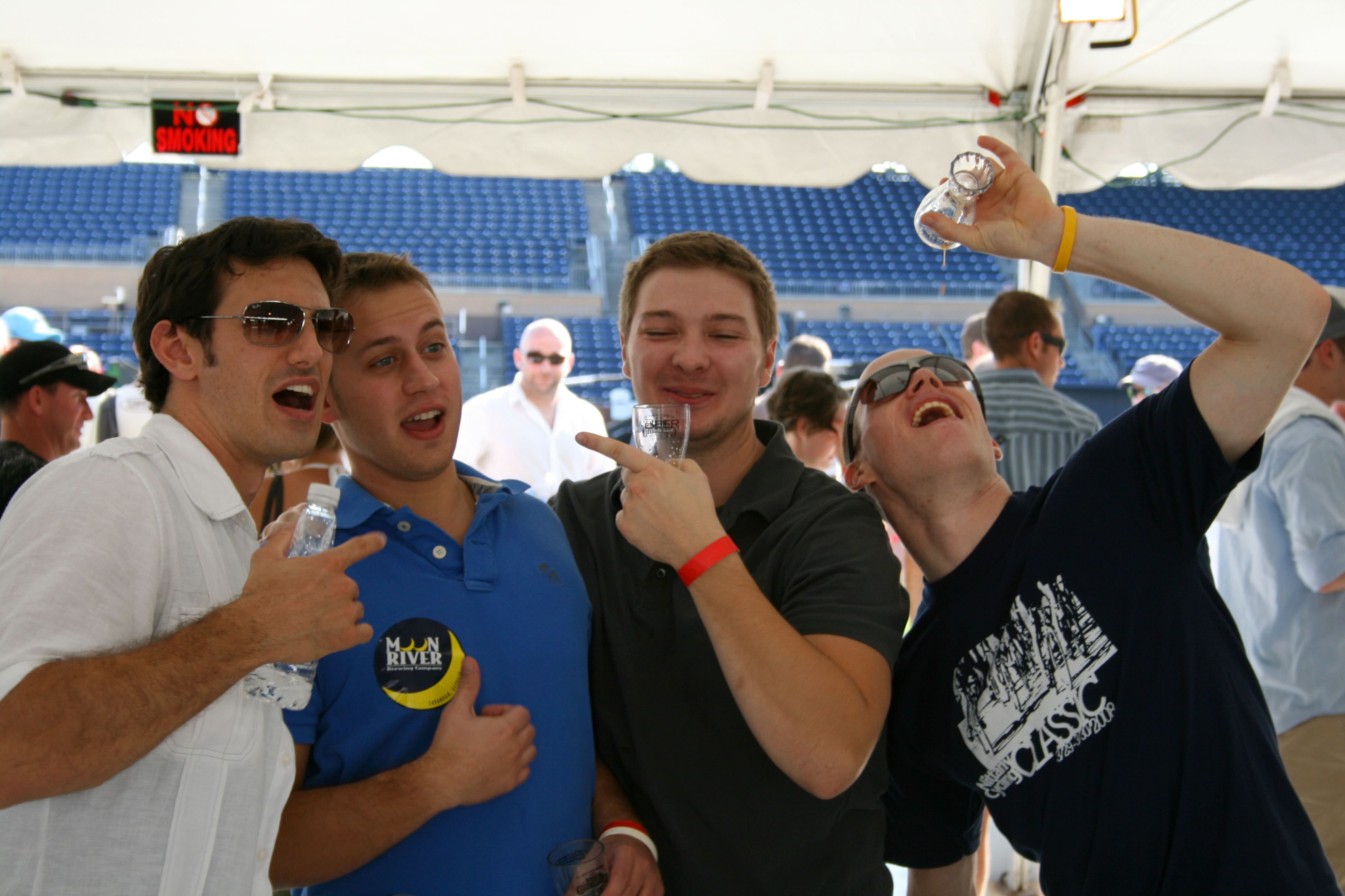 University students tasting beer and posing for a shot at the 13th Annual World Beer Festival held at the Durham Bulls Athletic Park in Durham, North Carolina.